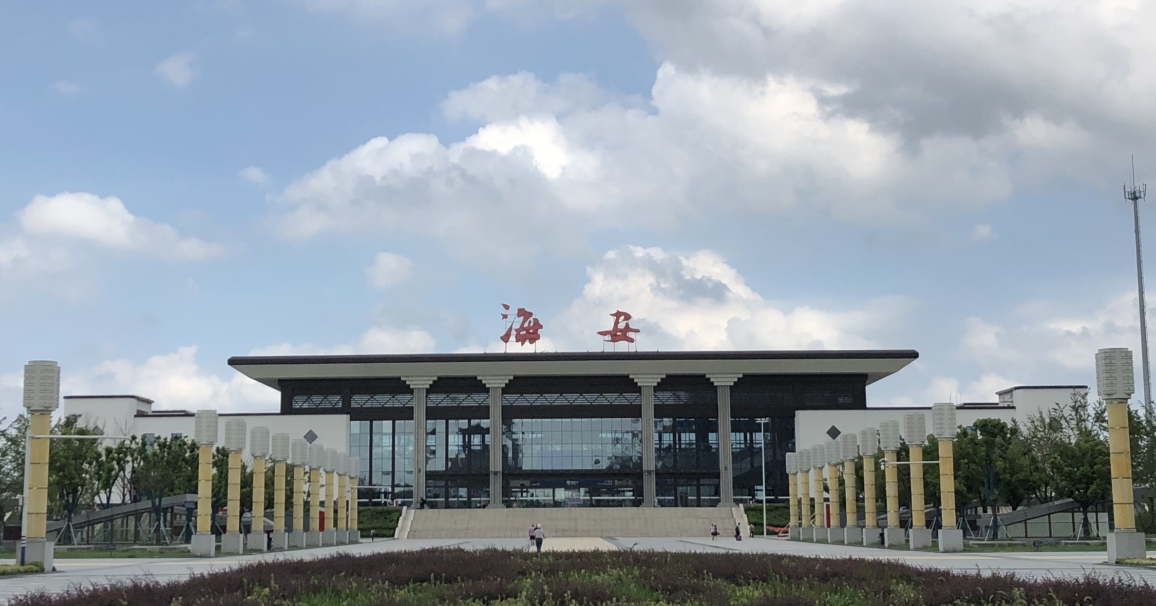 The new station board was set on 20th August, 2018. It adopted the handwriting of Guojun Han, a famous Haian people.